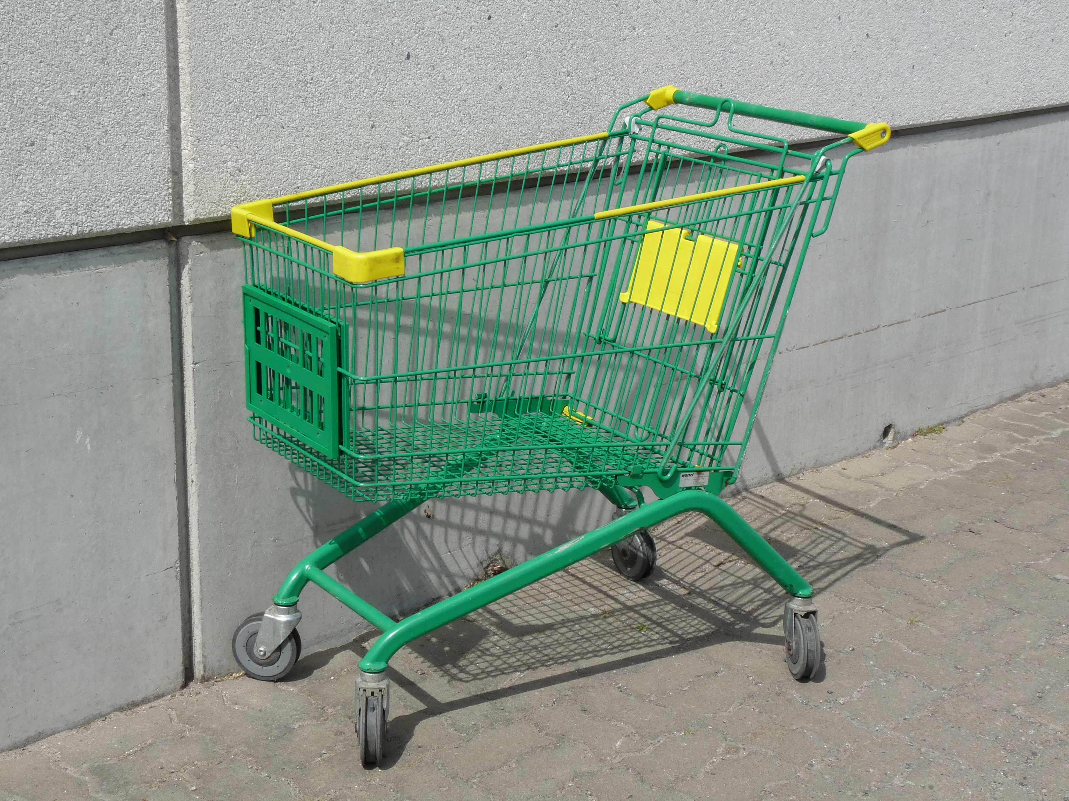 Shopping cart in Tallinn, Estonia